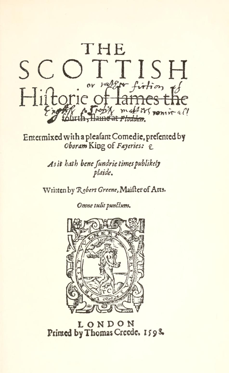 Title page of first surviving edition of Robert Greene's "James the Fourth", 1598